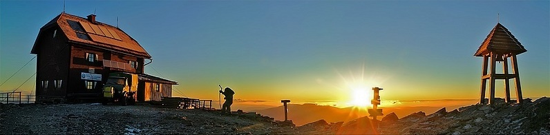 sun rise at Zirbitzkogel peak